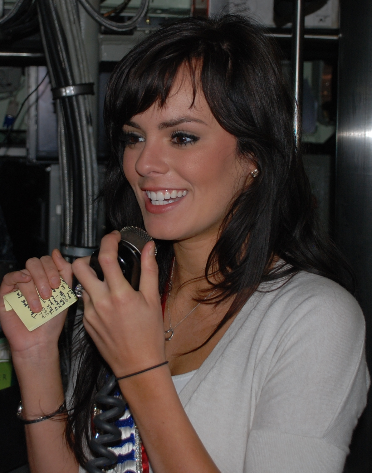 Sara Brooks on board USS Alexandria